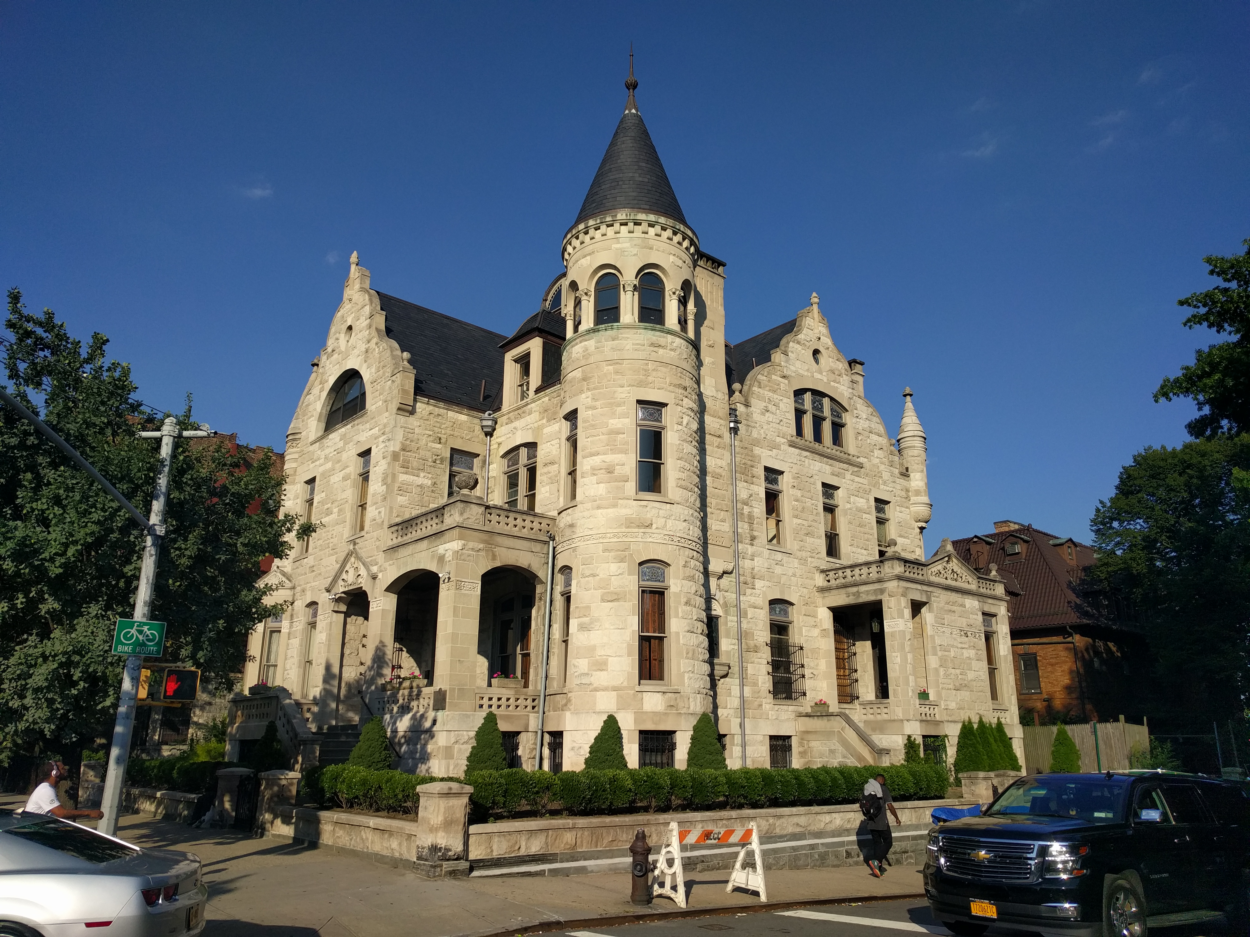 Bailey House, 10 Saint Nicholas Place